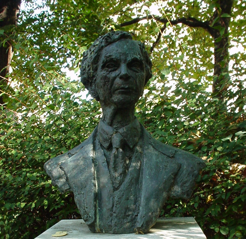 Bust of Bertrand Russell by Marcelle Quinton (1980) in Red Lion Square Camden/London